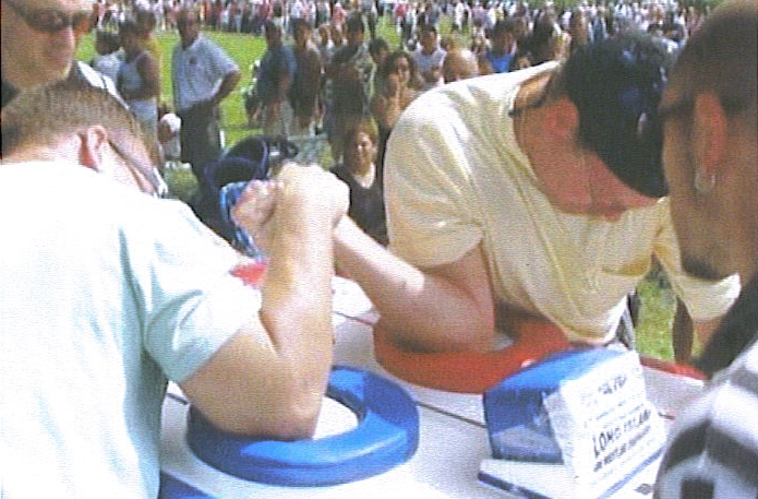 Arm wrestling: The contestant on the right is in an injury-prone or "break arm" position. His shoulder must be in line with or behind the arm, as seen with the contestant on the left. This is cause for a referee to stop the match.